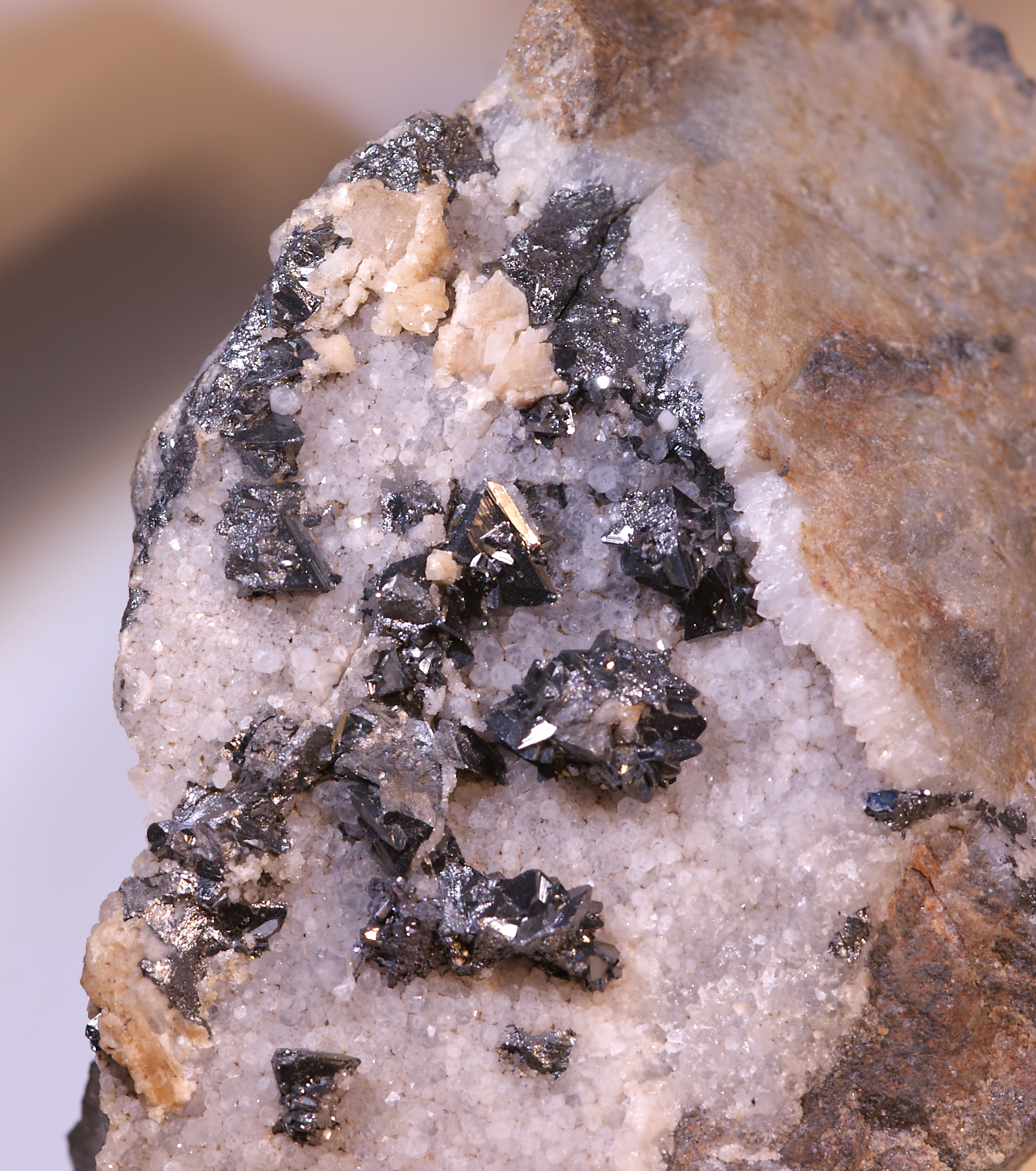 Freibergite - Reiche Zeche Mine, Himmelfahrt - Freiberg - Germany. 7.5 × 5 cm.